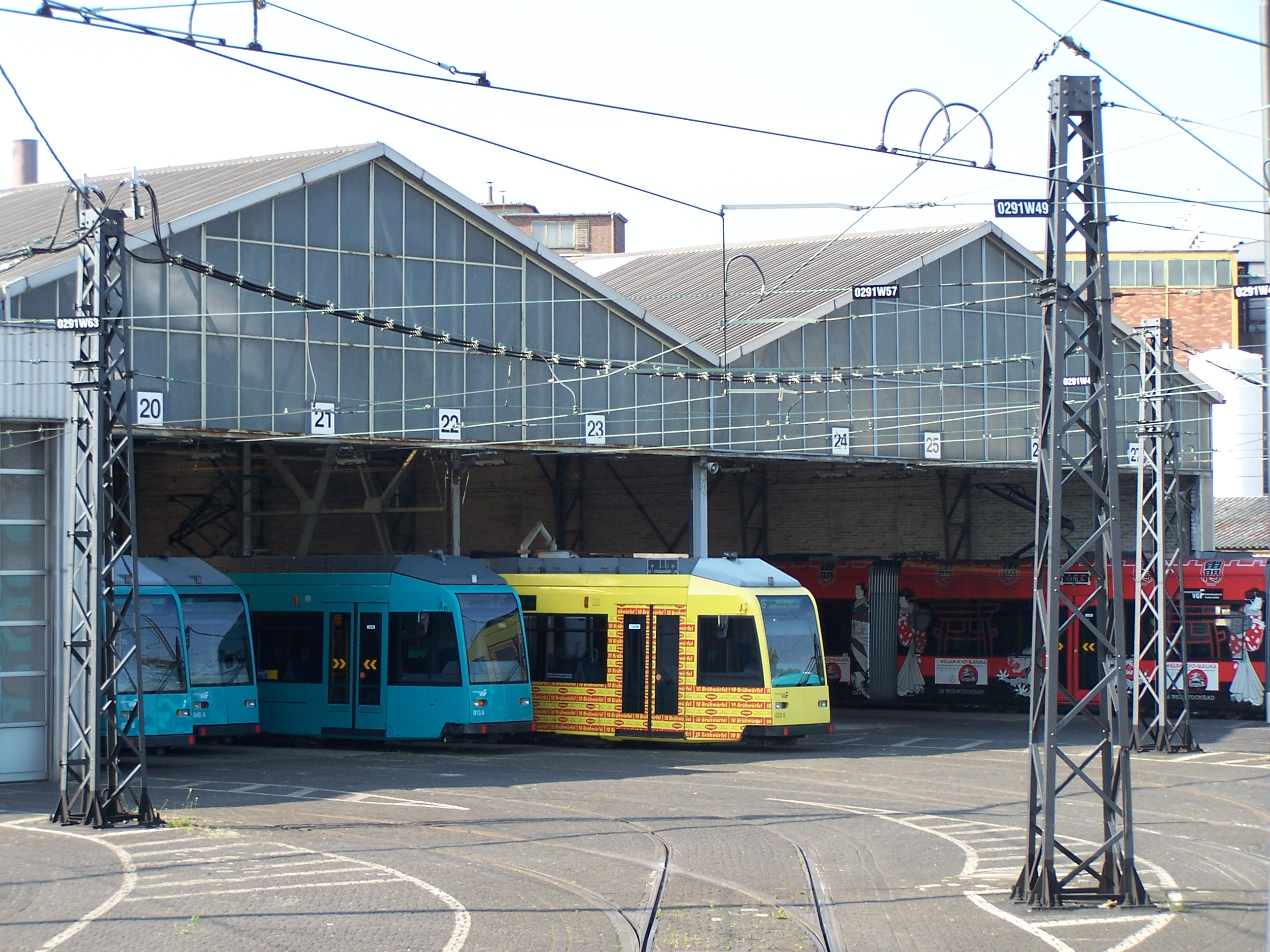 tram depot Gutleut in Frankfurt on Main, Germany, 2007